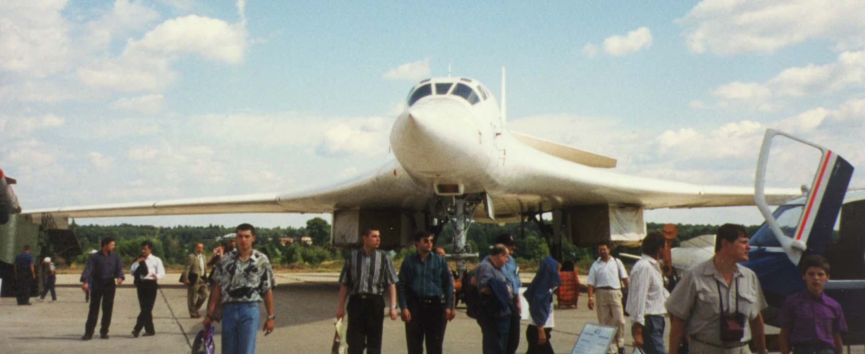 Tupolev Tu-160. Foto an der MAKS 1997